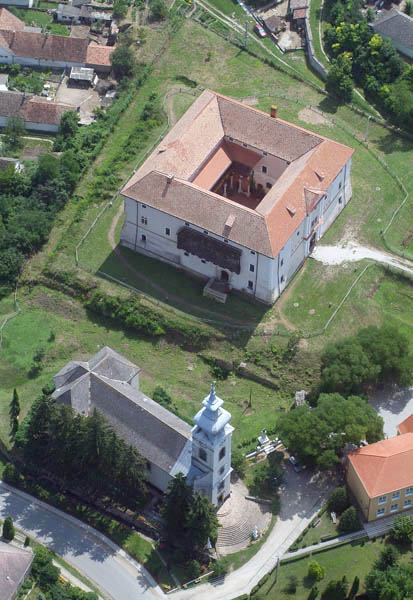 Ozora, Castle, Hungary, aerial photography